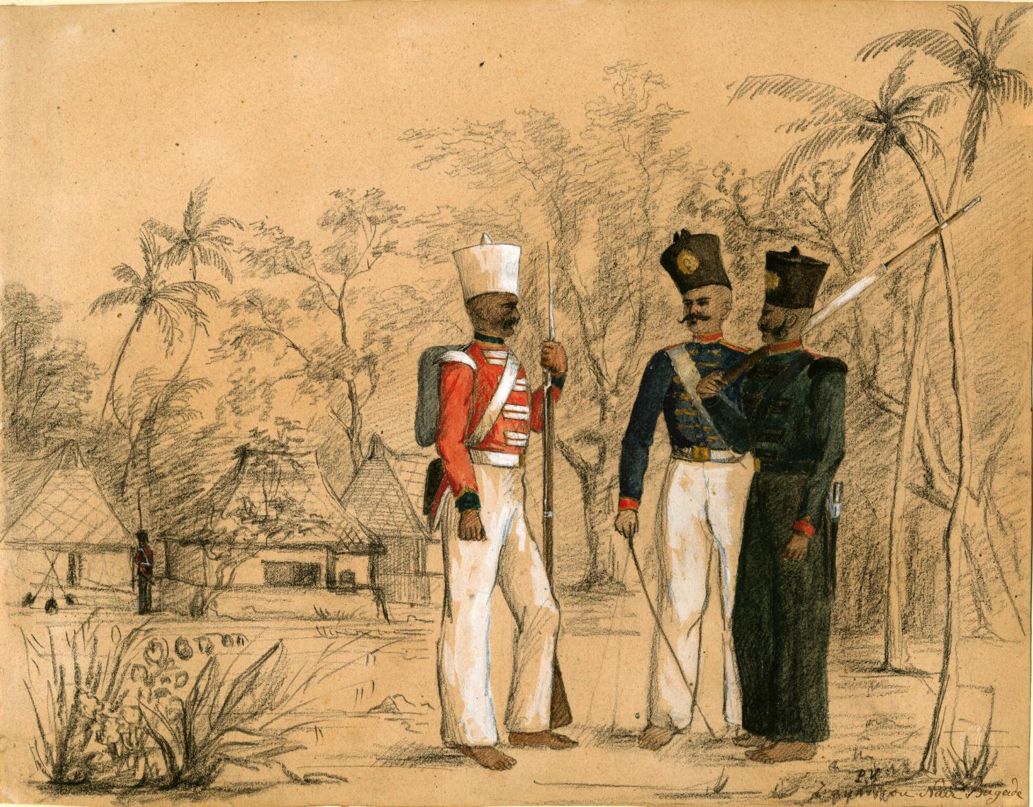 This picture shows some of its members part of a Nair brigade in the service of the British, as painted by the Swiss artist Paul Aimé Vallouy (1832–1899) and part of a series of three charcoal and watercolour drawings made in 1855.